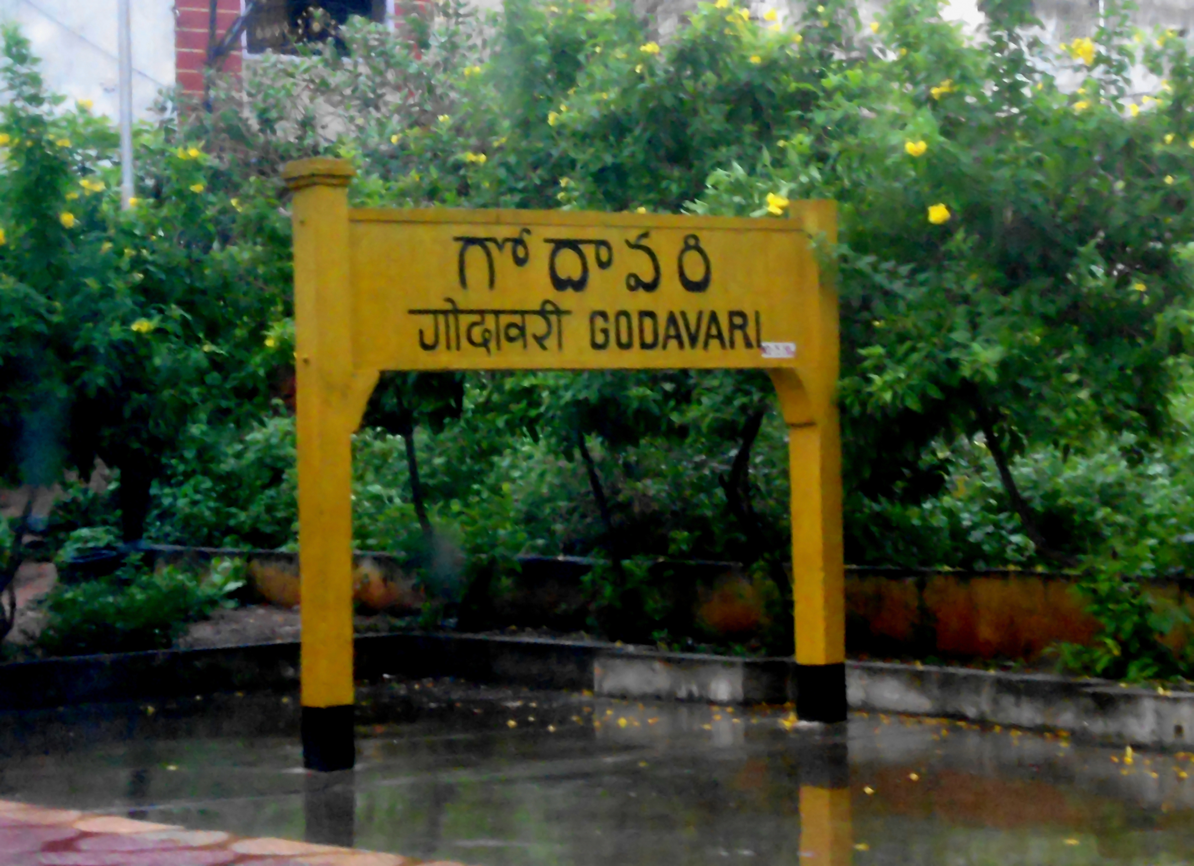 Name board of Godavari Railway station in Rajahmundry, Andhra Pradesh